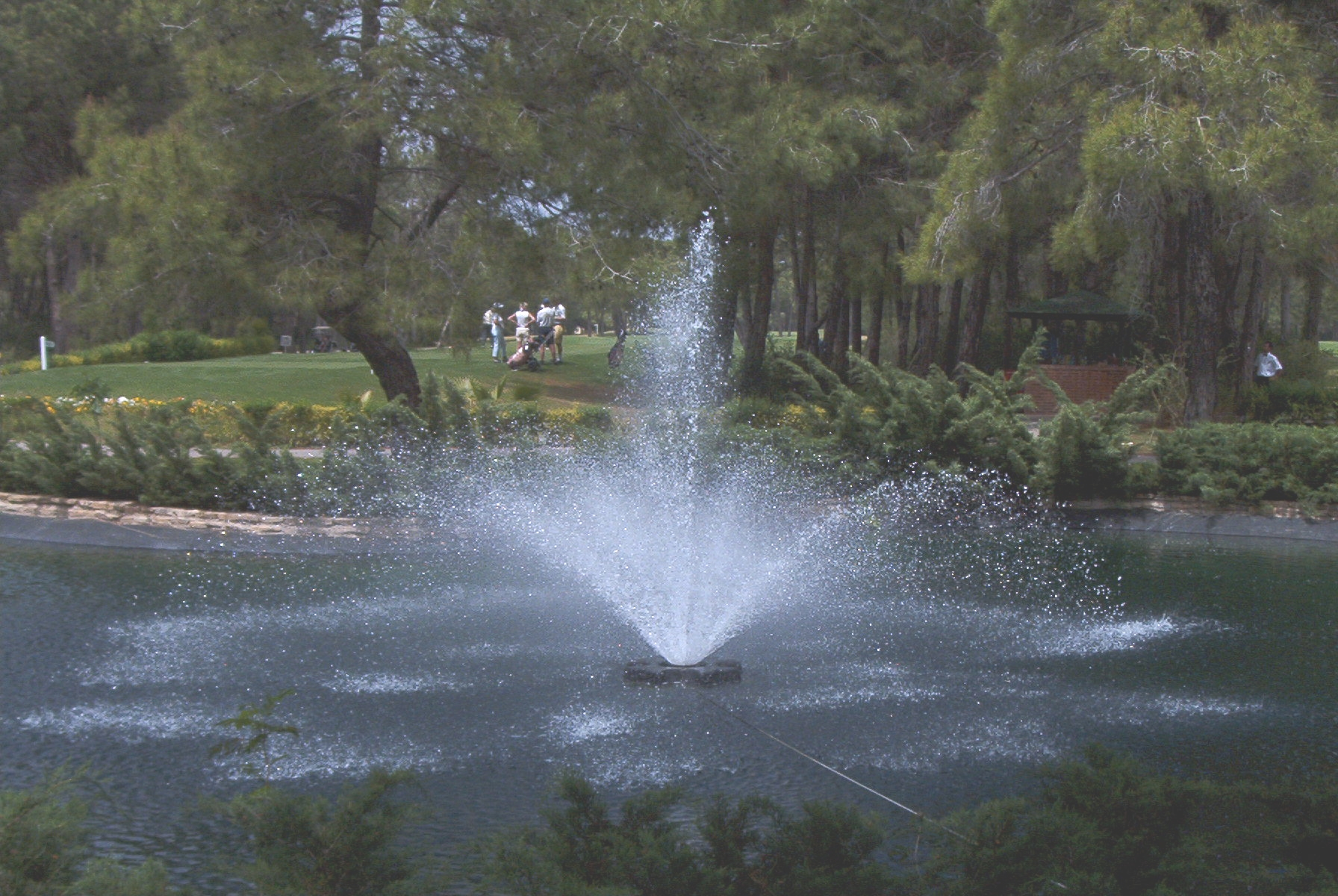 Golf course Gloria in Belek near Antalya (Turkey)